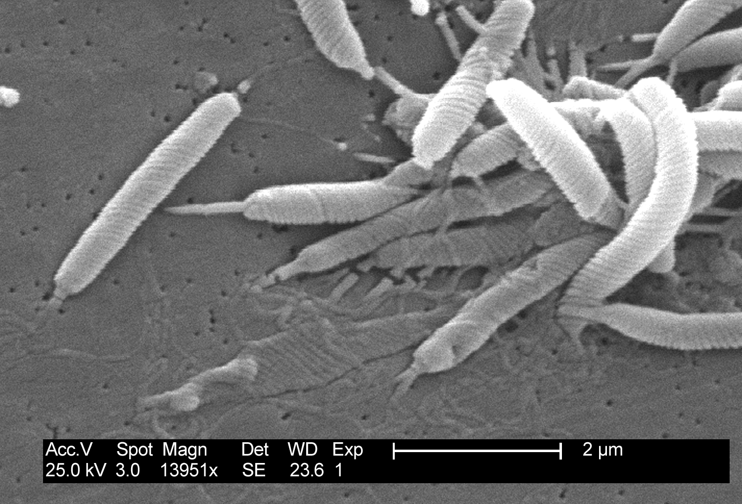 Scanning electron micrograph of Helicobacter bacteria (originally classified as Flexispira rappini, now deprecated). Obtained from the CDC Public Health Image Library. Image credit: CDC/Dr. Patricia Fields, Dr. Collette Fitzgerald (PHIL #5715), 2004.